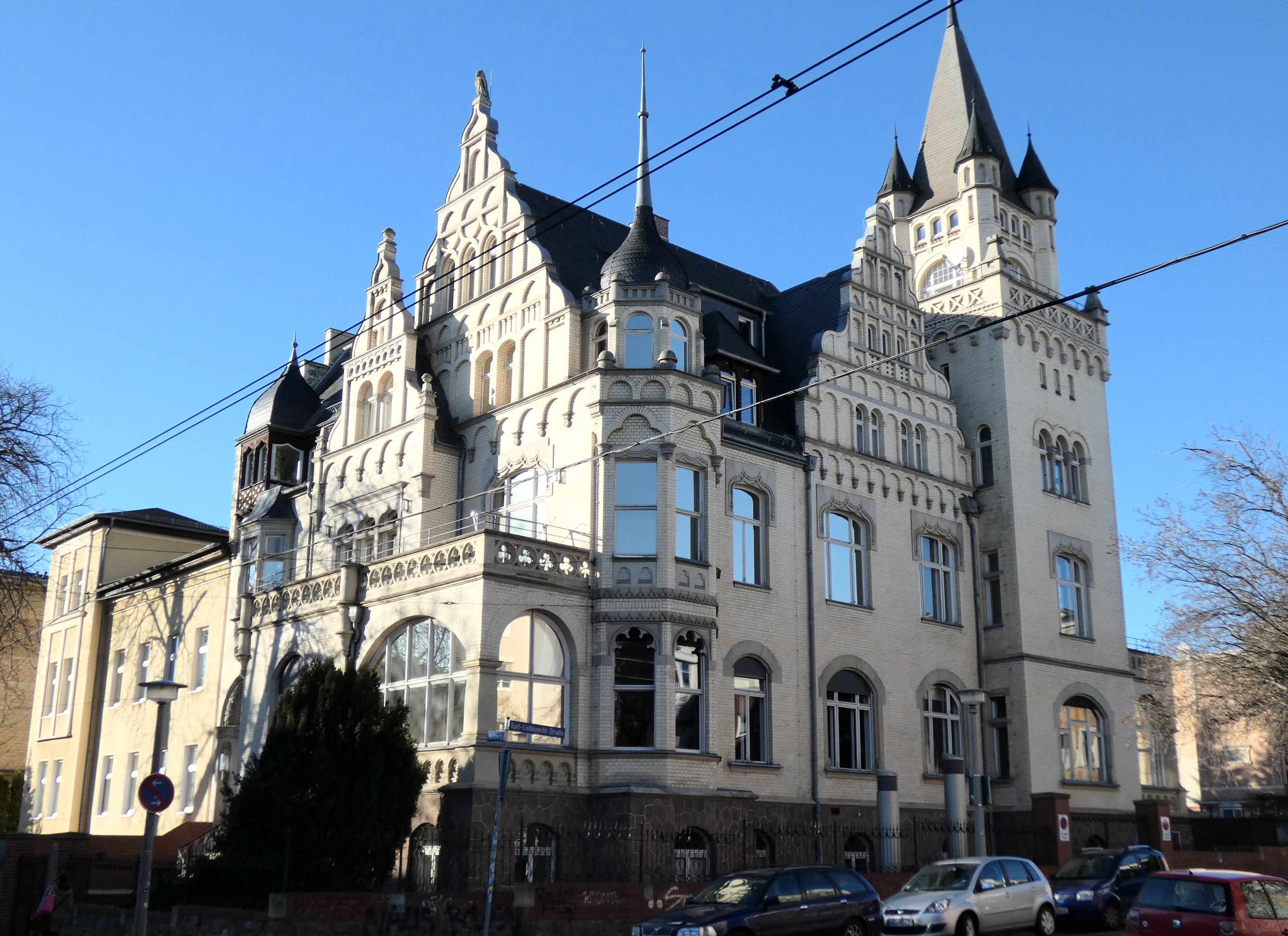 Villa Kaehne, No. 15 at Mühlweg in Halle/Saale (Saxony-Anhalt), now Oriental Institute of the University of Halle